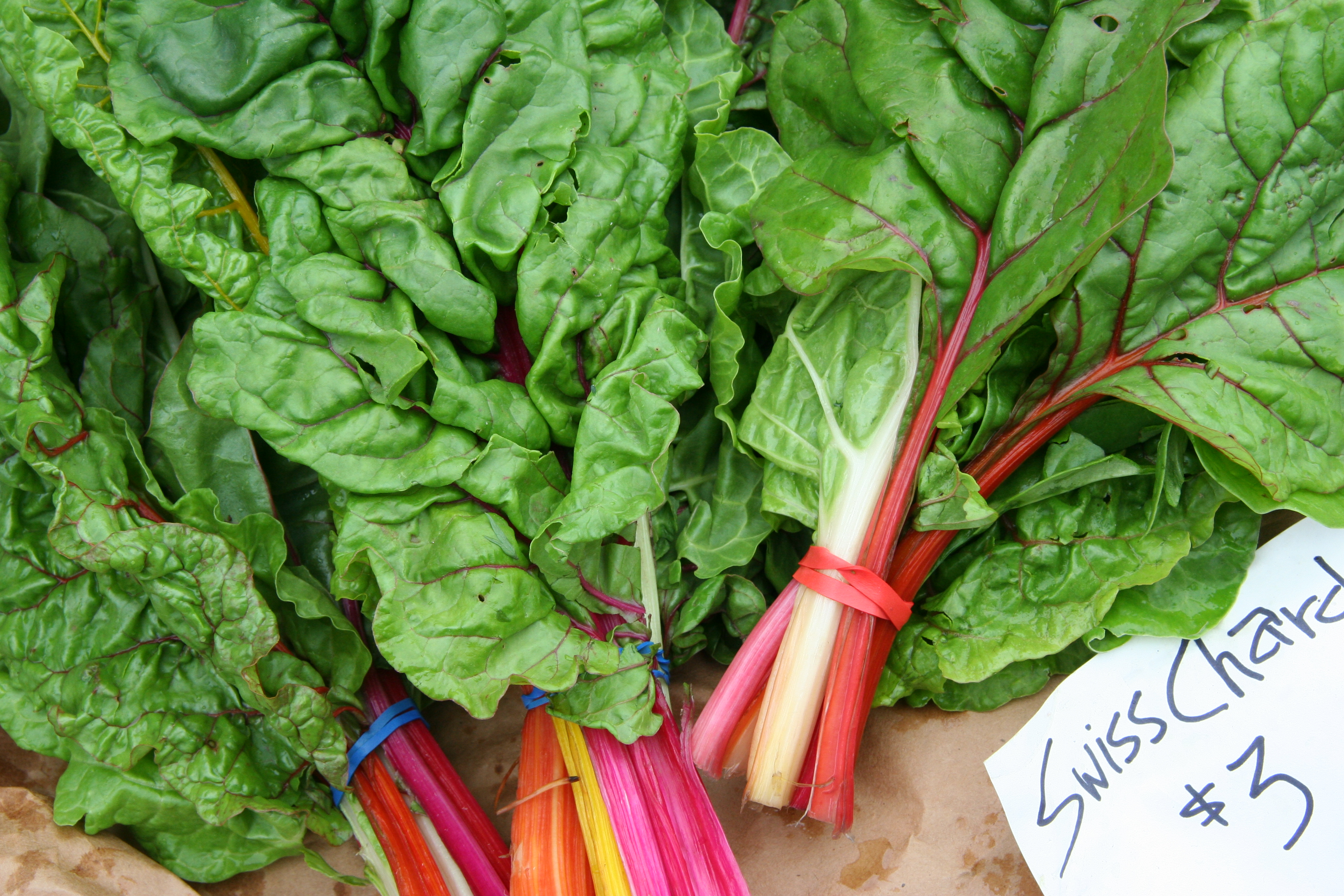 Swiss chard (Beta vulgaris) with variously colored stems on sale at an outdoor farmers' market in Rochester, Minnesota